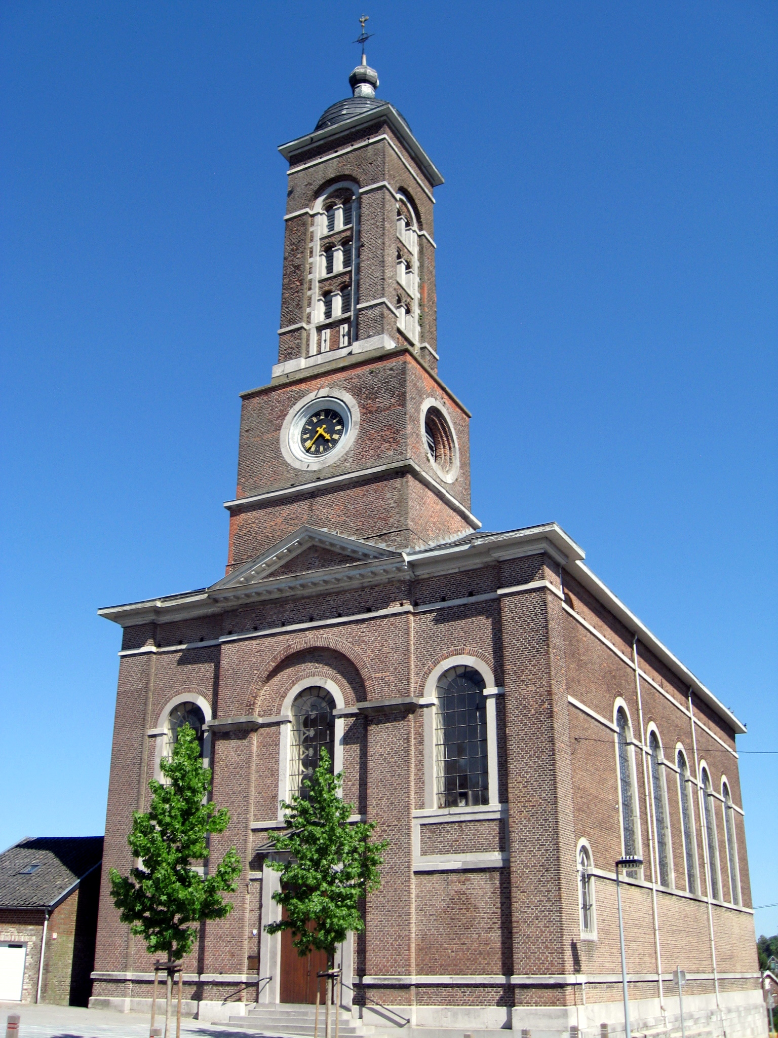 Church of Saint Giles in Chaineux, Herve, Liège, Belgium